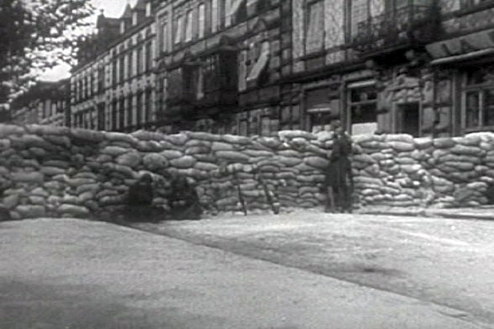 French troops setting barricades in Paris in case of an upcoming Nazi German invasion (May 1940). Screenhot taken from the 1943 United States Army propaganda film Divide and Conquer (Why We Fight #3) directed by Frank Capra and partially based on, news archives, animations, restaged scenes and captured propaganda material from both sides.